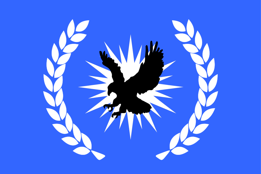 A simplified version of the flag of the Northern Syria Internal Security Forces (Asayish) to be used in Wikipedia infoboxes. This file was derived from: Eagle 01.svg: Yezidi Flag SVG.svg: Kantona Kobanê (Emblem).svg